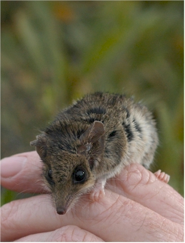 Common Dunnart caught in Wallum Heath, Munmorah SCA Central Coast NSW Australia